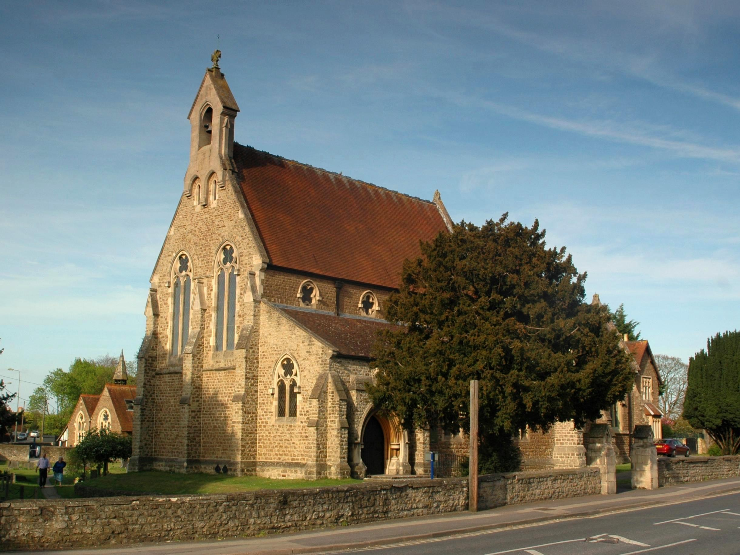 Roman Catholic church of Our Lady and St Edmund, Abingdon, Oxfordshire (formerly Berkshire), seen from the southwest. Designed by William Wardell and George Goldie and built in 1857–65.